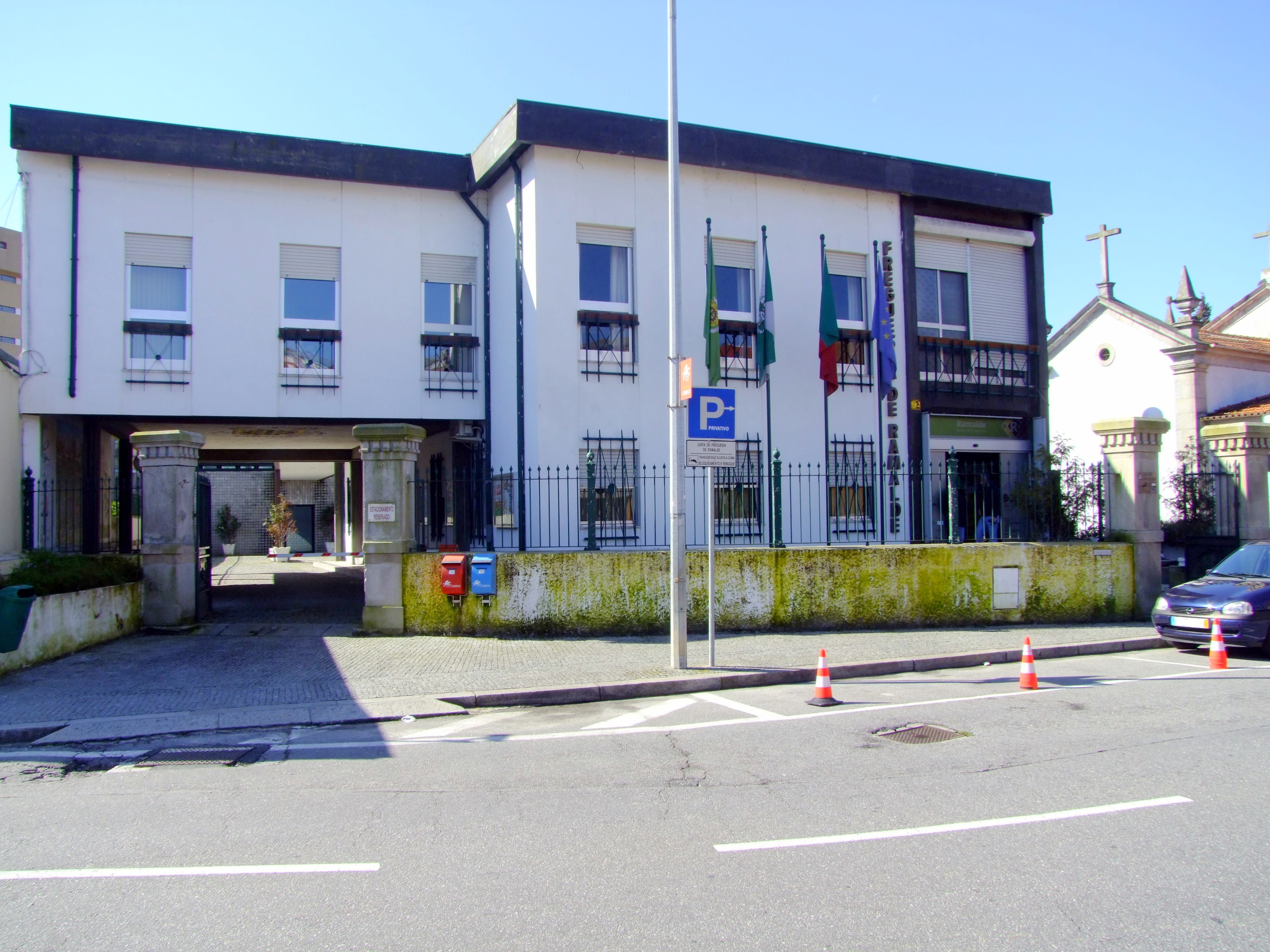 Junta de Freguesia de Ramalde, Porto.